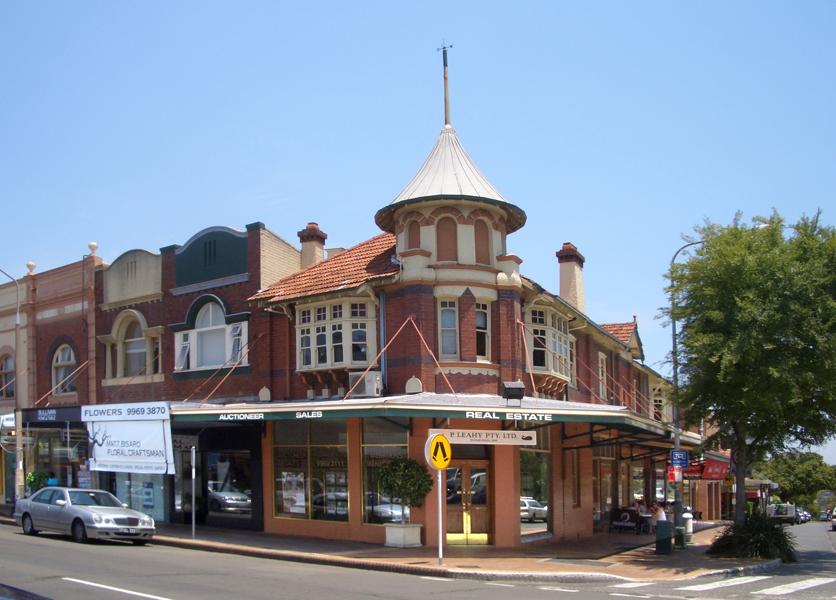 Military Road, Mosman, New South Wales